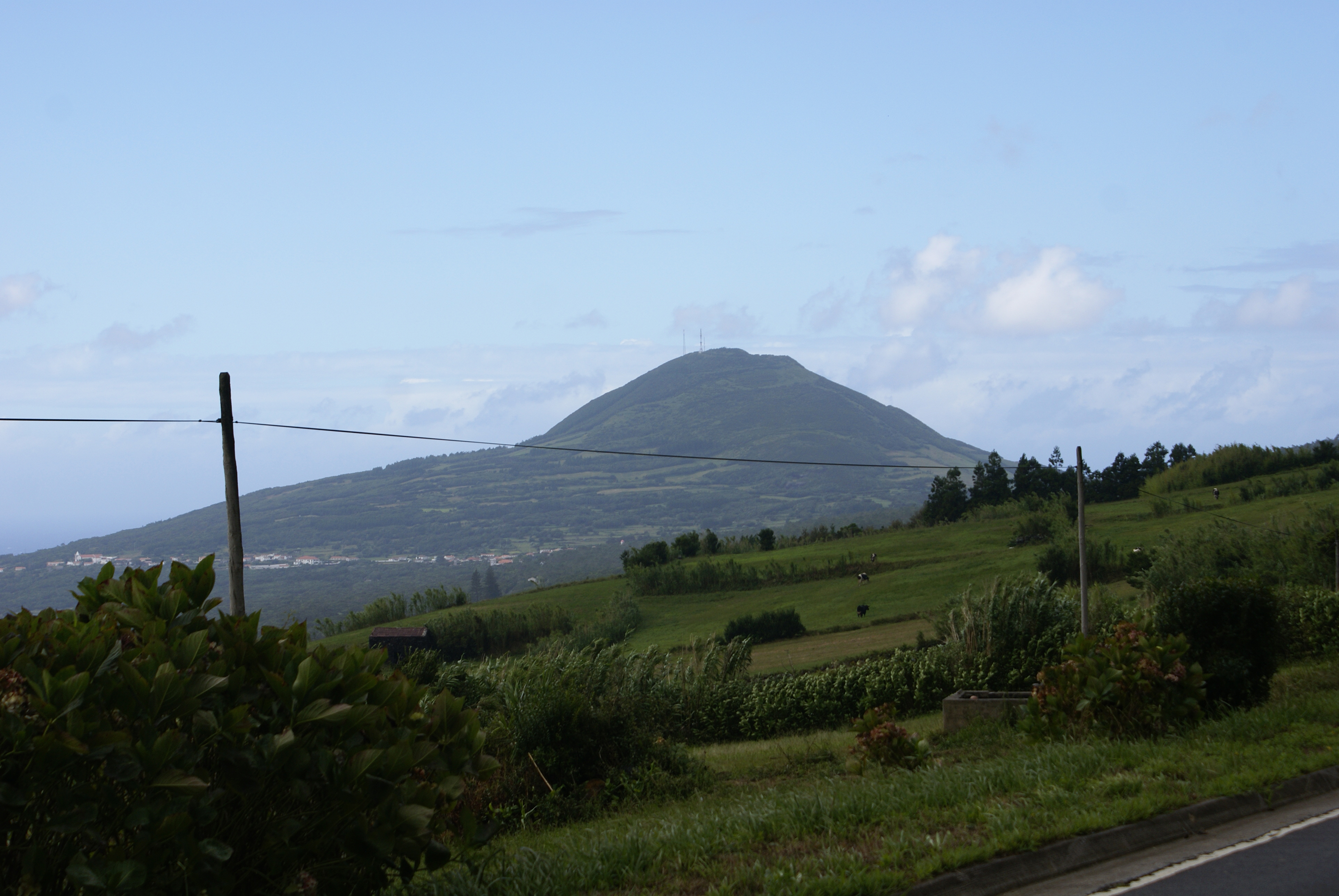 The volcanic cone of Cabeço Verde in the civil parish of Capelo, Horta, Faial (Azores), Portugal